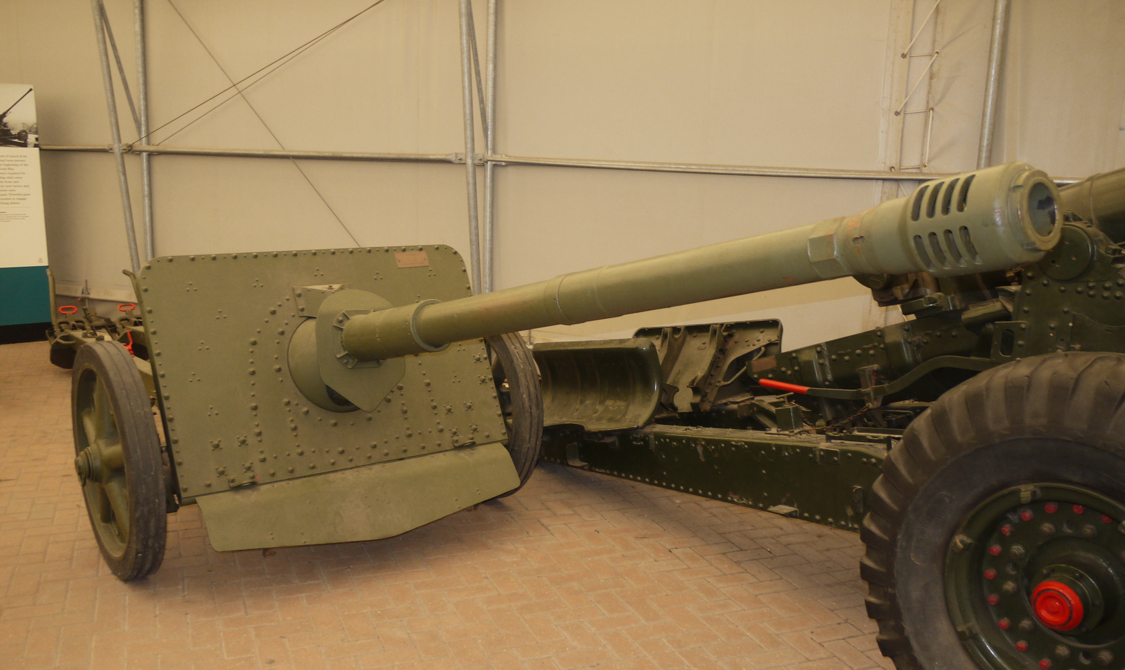 75 mm PaK 41 German WW2 squeeze bore gun. On display at fort nelson